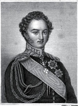 copper engraving showing Karl Egon II. Prince of Fürstenberg